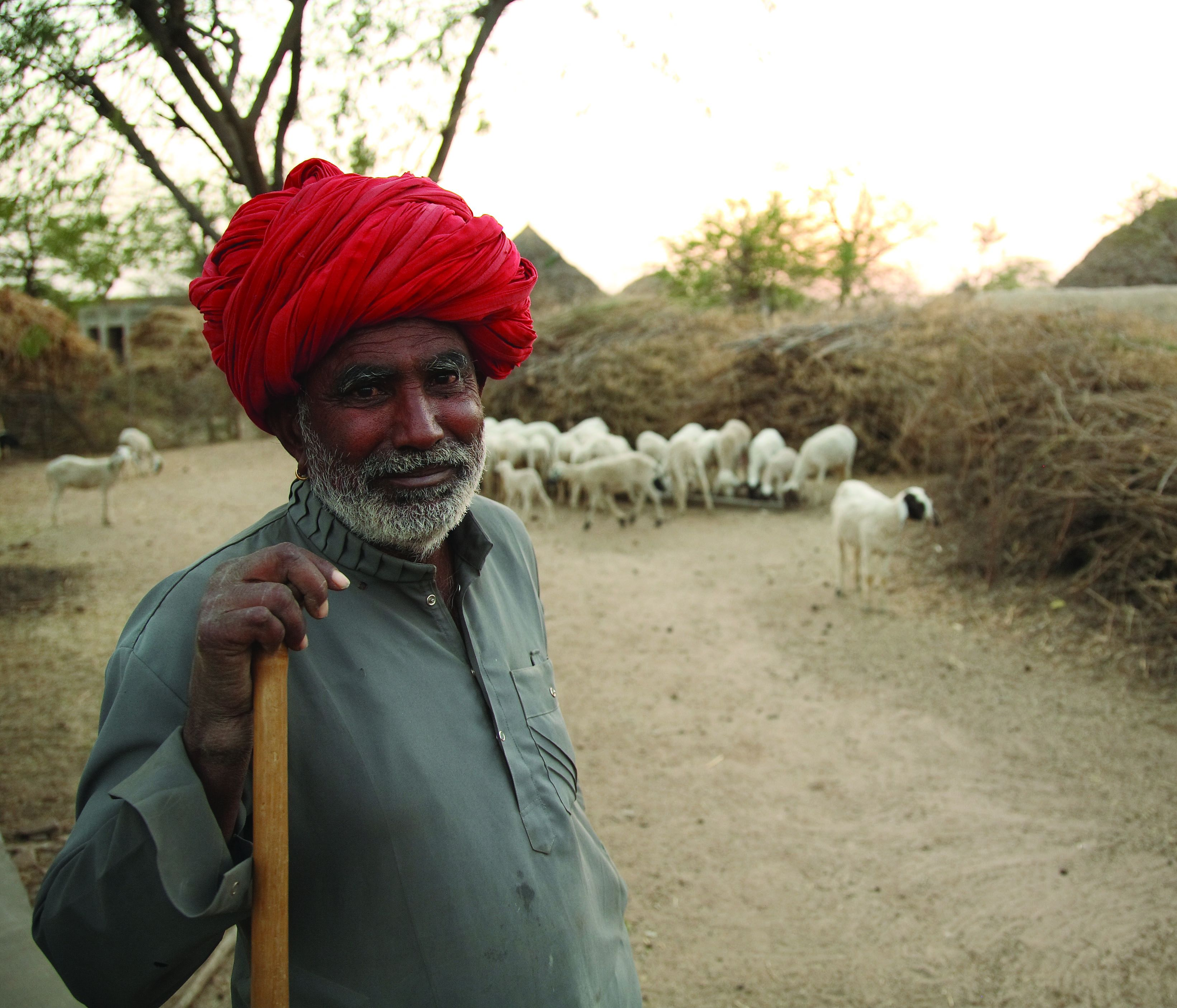 Farmer Benna Ramji, father of farmer Jay Ram, with his sheep. Tonk district, Nagar village. ILRI 2010 Calendar, caption Creating new options for older farmers. More improved farming systems mean more support for experienced farmers.